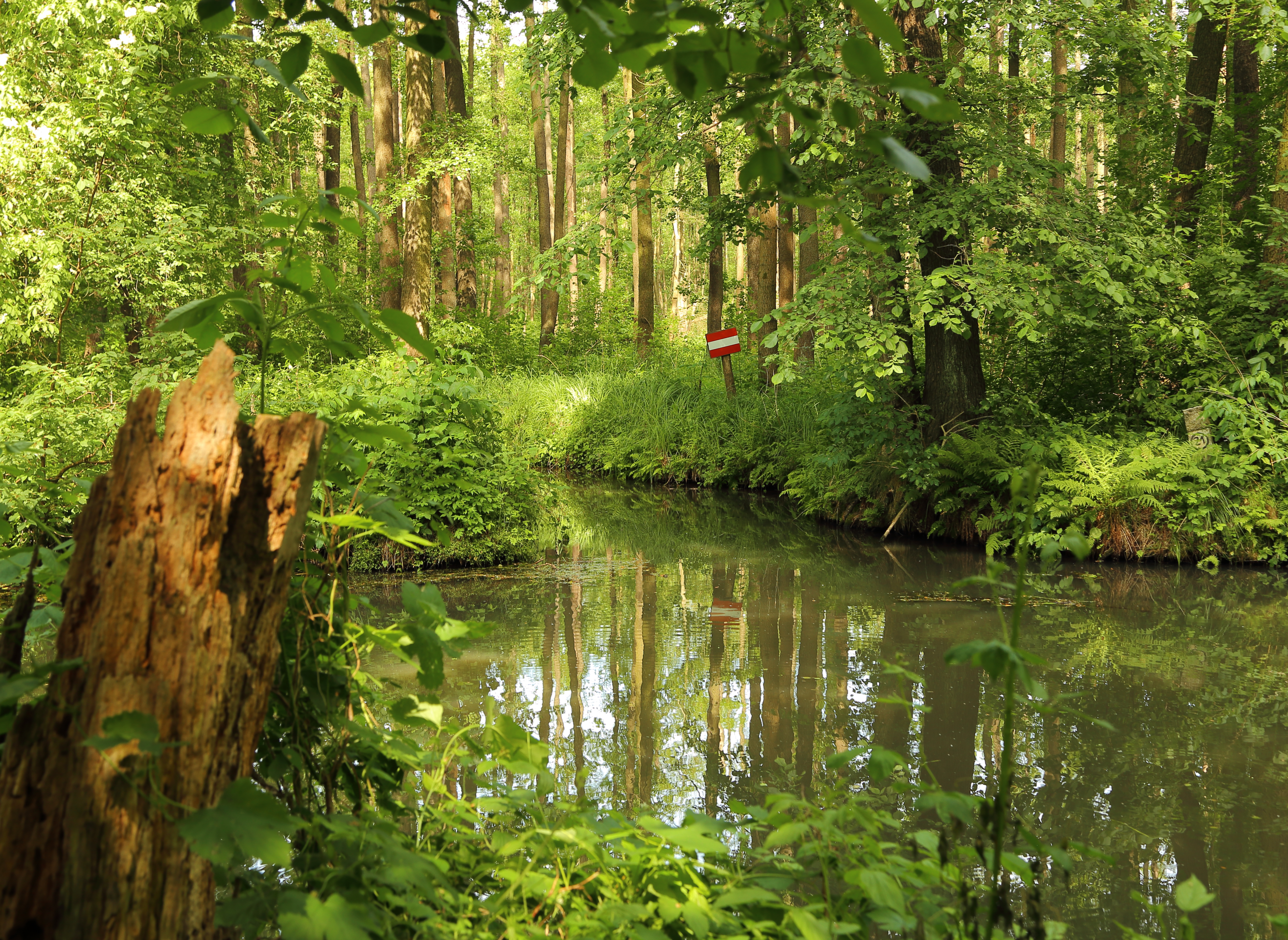 The Nordfließ within the nature reserve Innerer Oberspreewald (Naturschutzgebiet Innerer Oberspreewald) near Neu Zauche, Landkreis Dahme-Spreewald, Brandenburg, Germany. Fließ is a typical Spreewald term for stream or beck, so Nordfließ means North[ern] Stream.